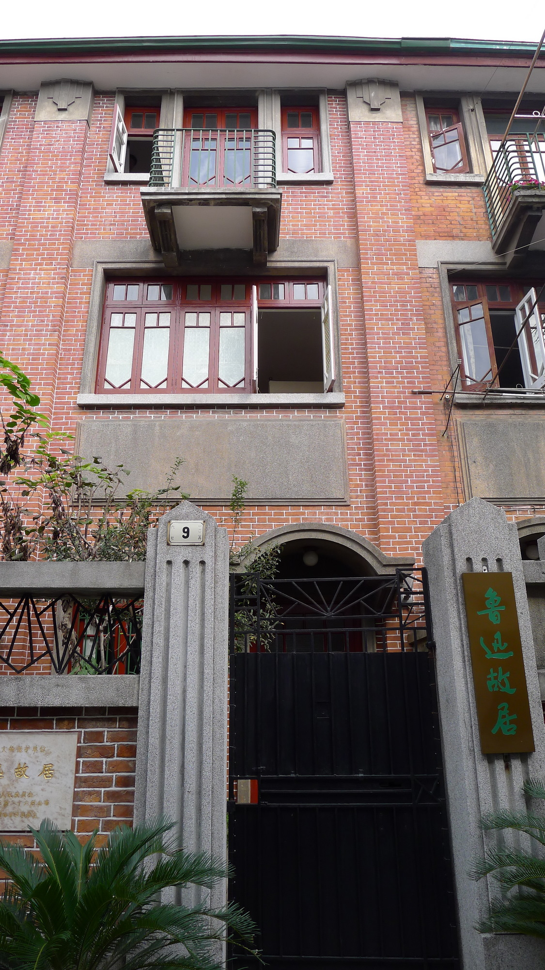 Former residence of Luxun in Shanghai